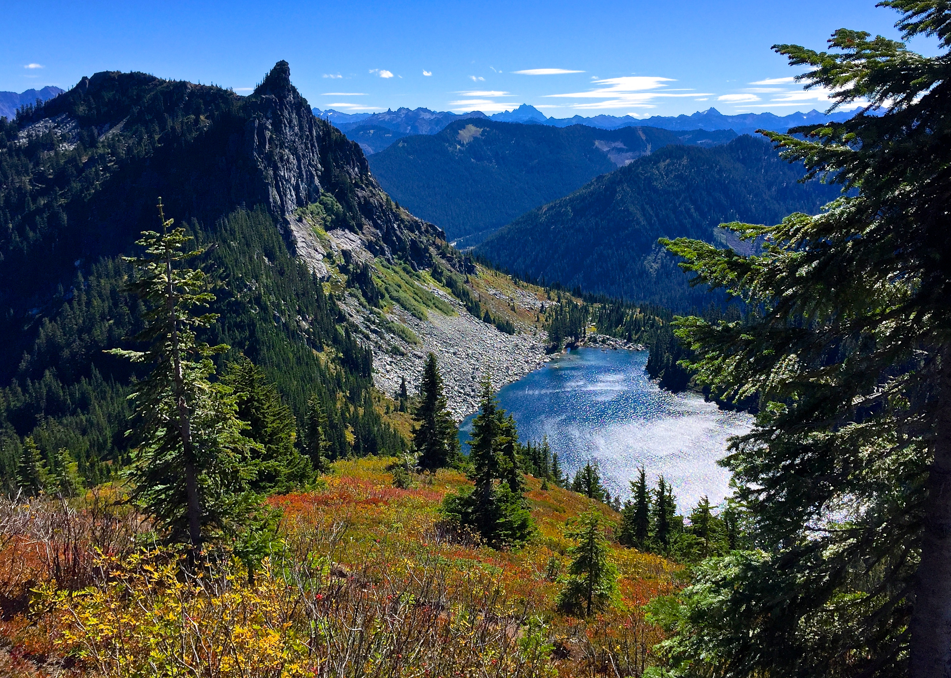 Mt Lichtenberg and Lake Valhalla from higher up on Mt. McCausland